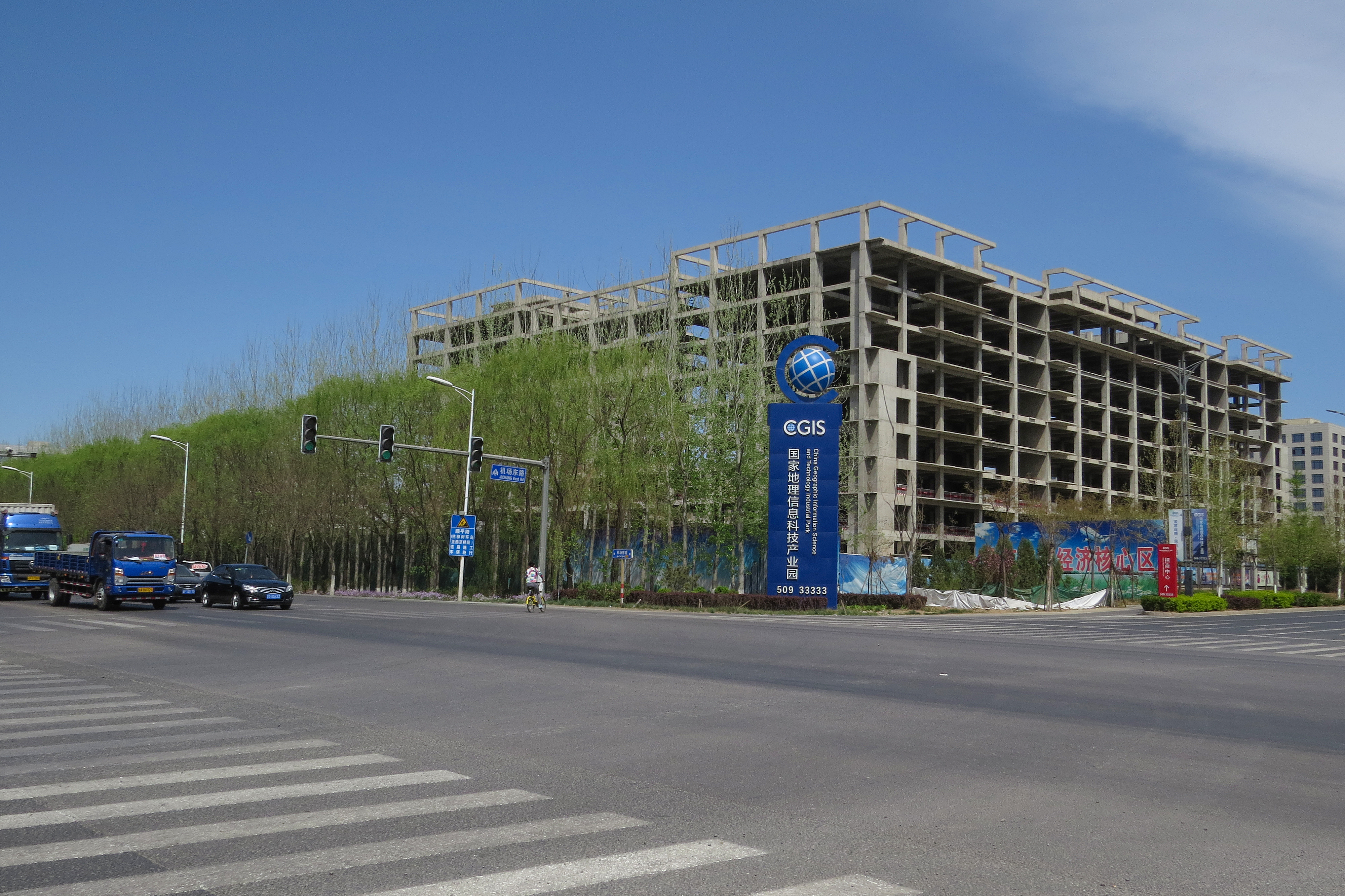 This GIS industrial park is not far from ZBAA's runway 01/19.